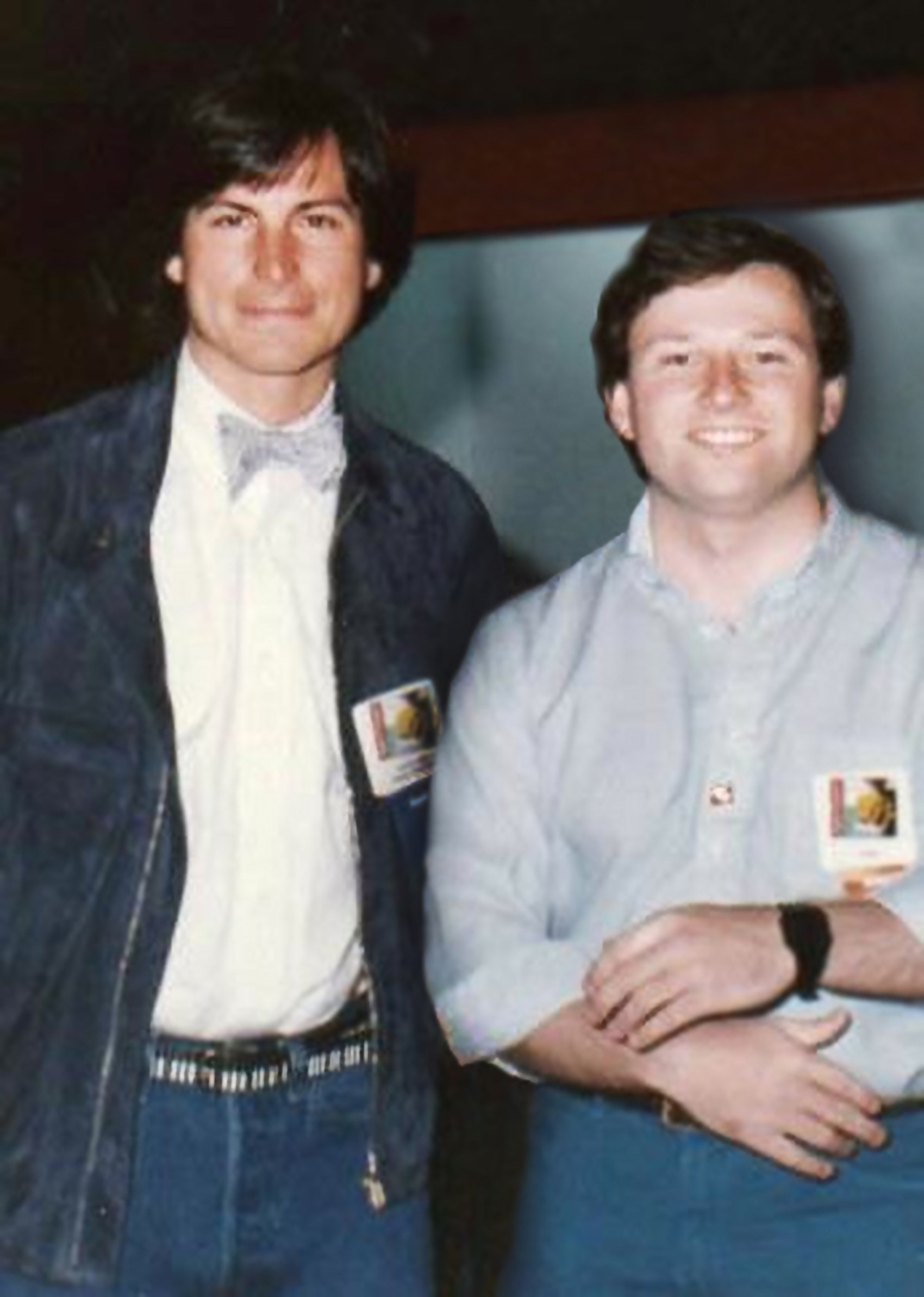 Steve Jobs with Wendell Brown in January 1984, at the launch of Brown's Hippo-C software for Macintosh